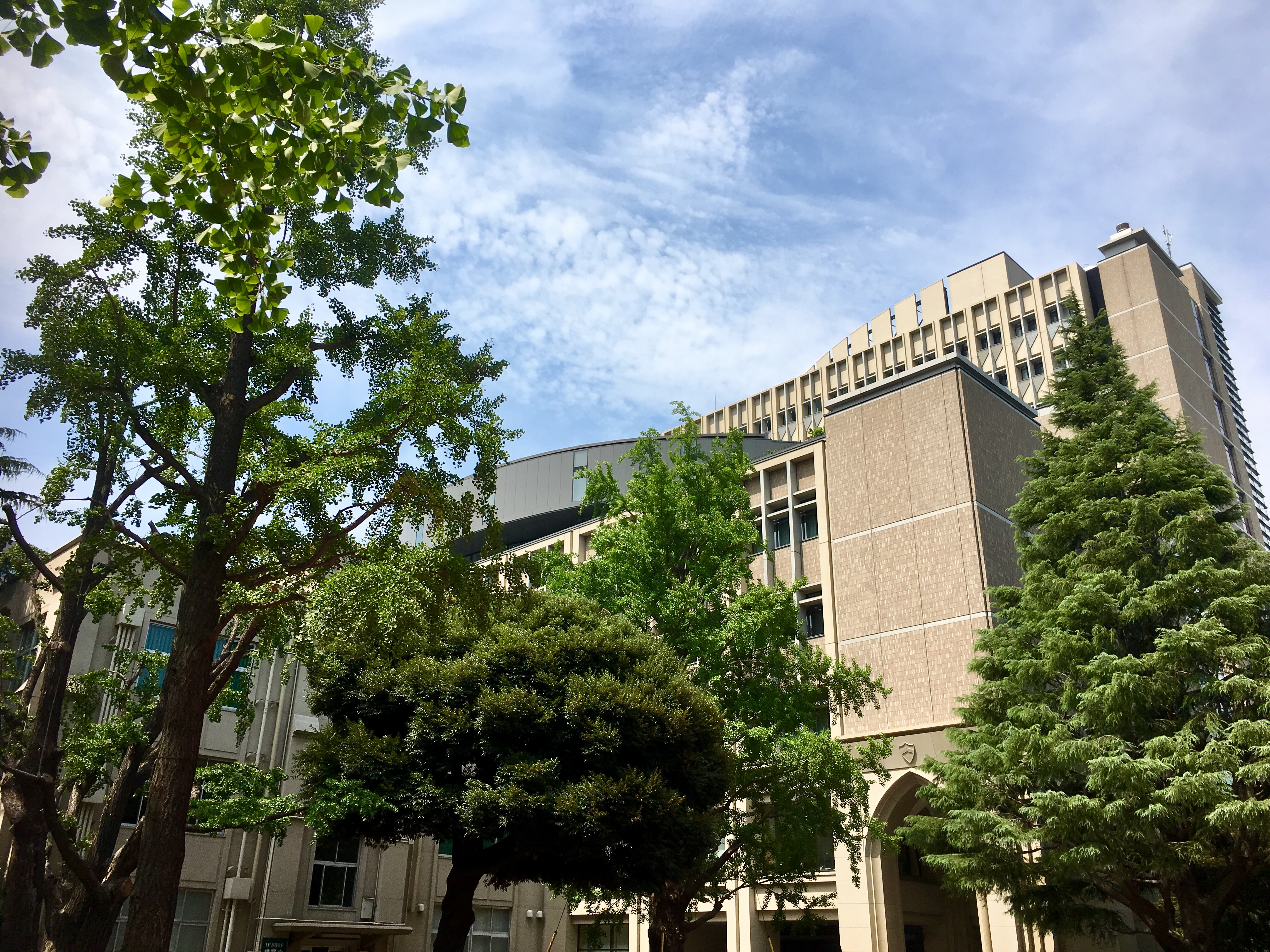 This is the Aoyama Gakuin university's building 17.